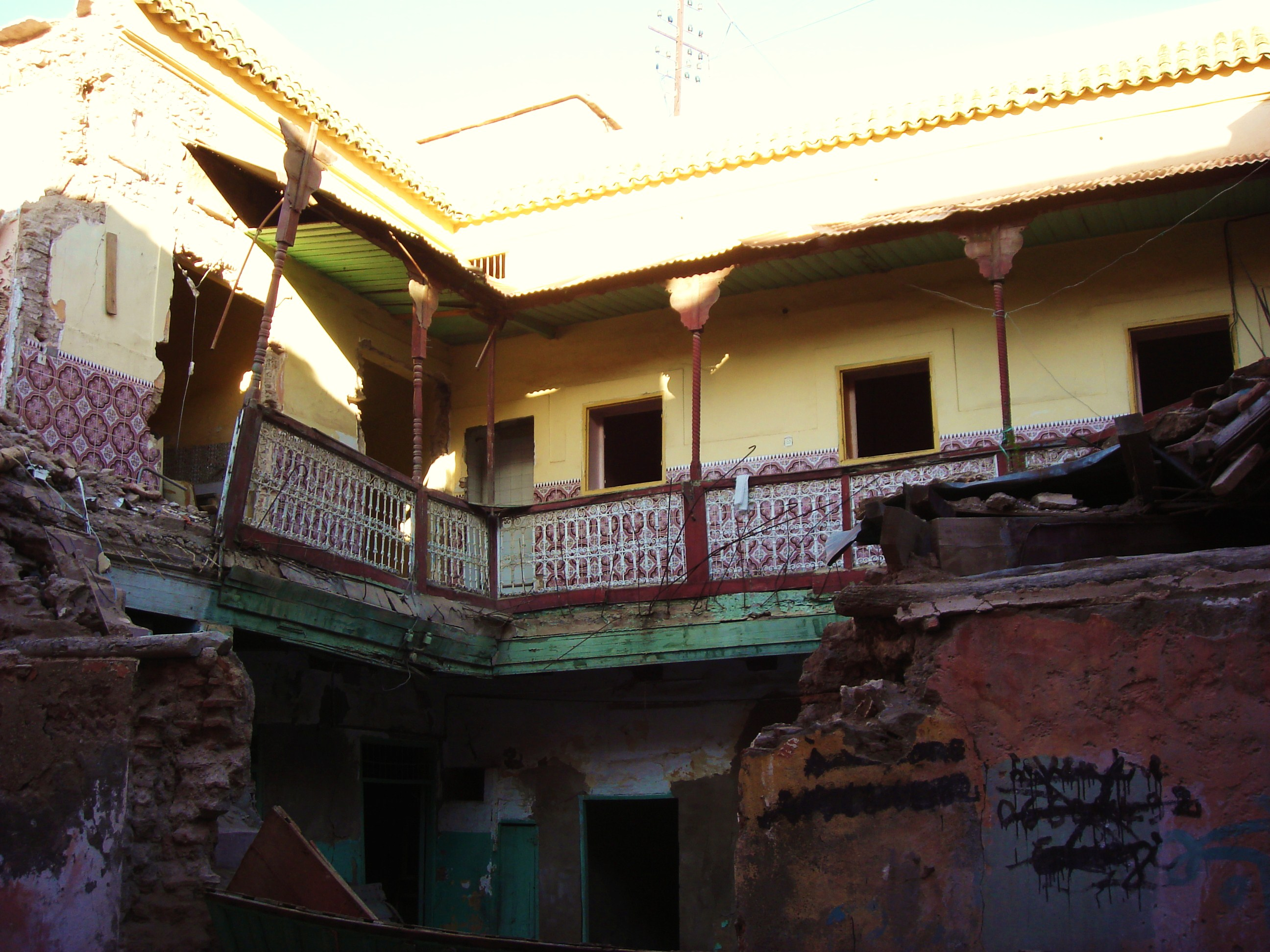 Old Riad left to fall down in Marrakech. dec 2009 pic taken by John Doyle doyler79